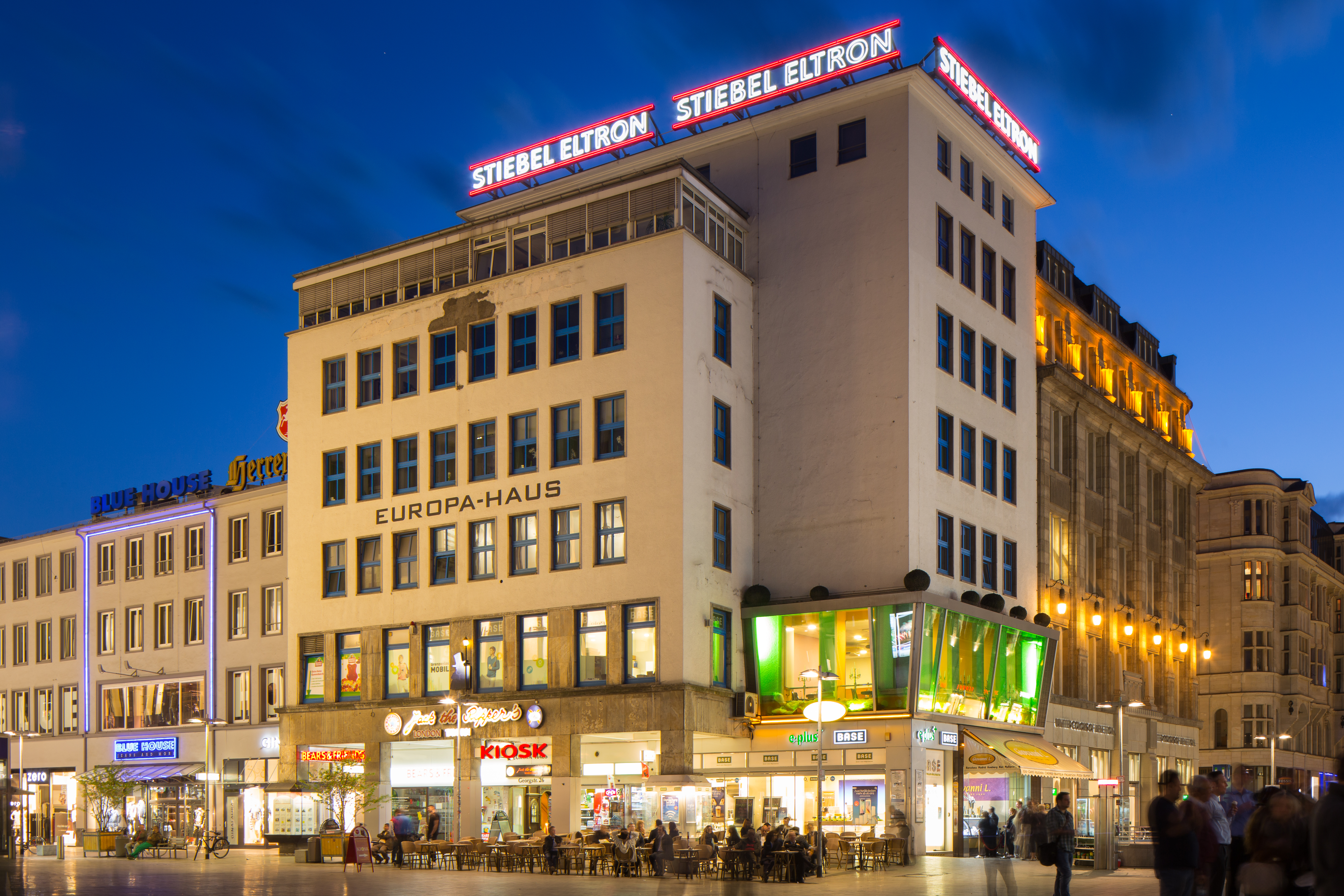 Office building Europa-Haus located at Kroepcke square in Mitte quarter of Hannover, Germany.